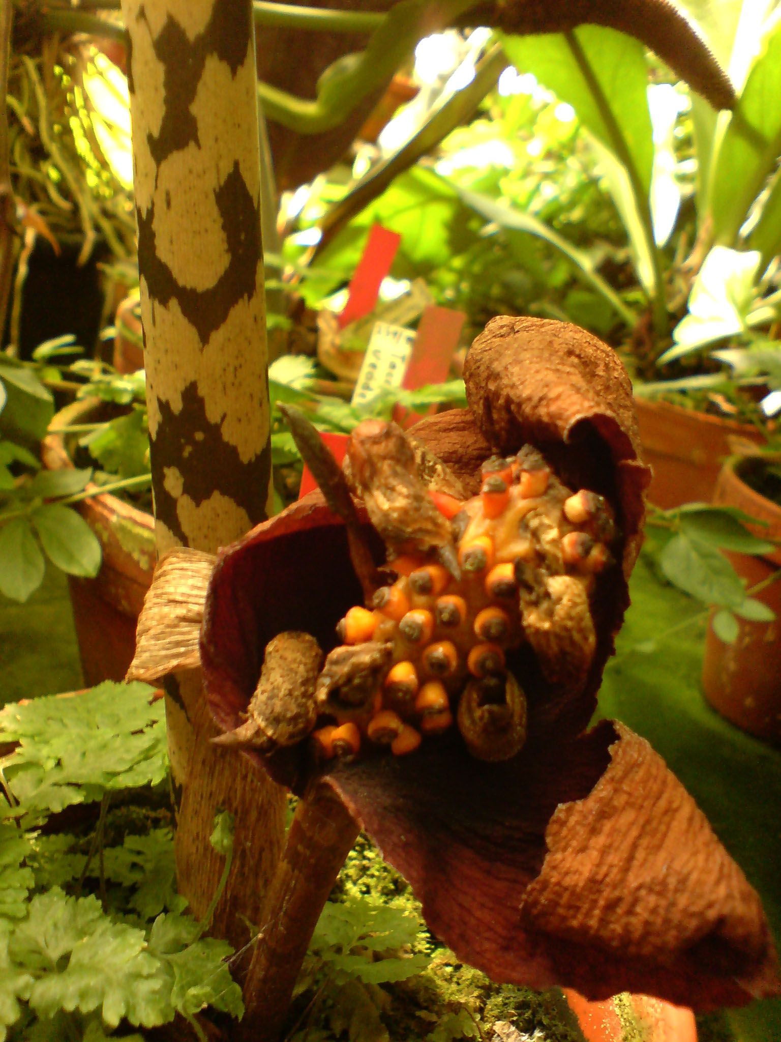 Amorphophallus bulbifer - Botanical Garden Göttingen